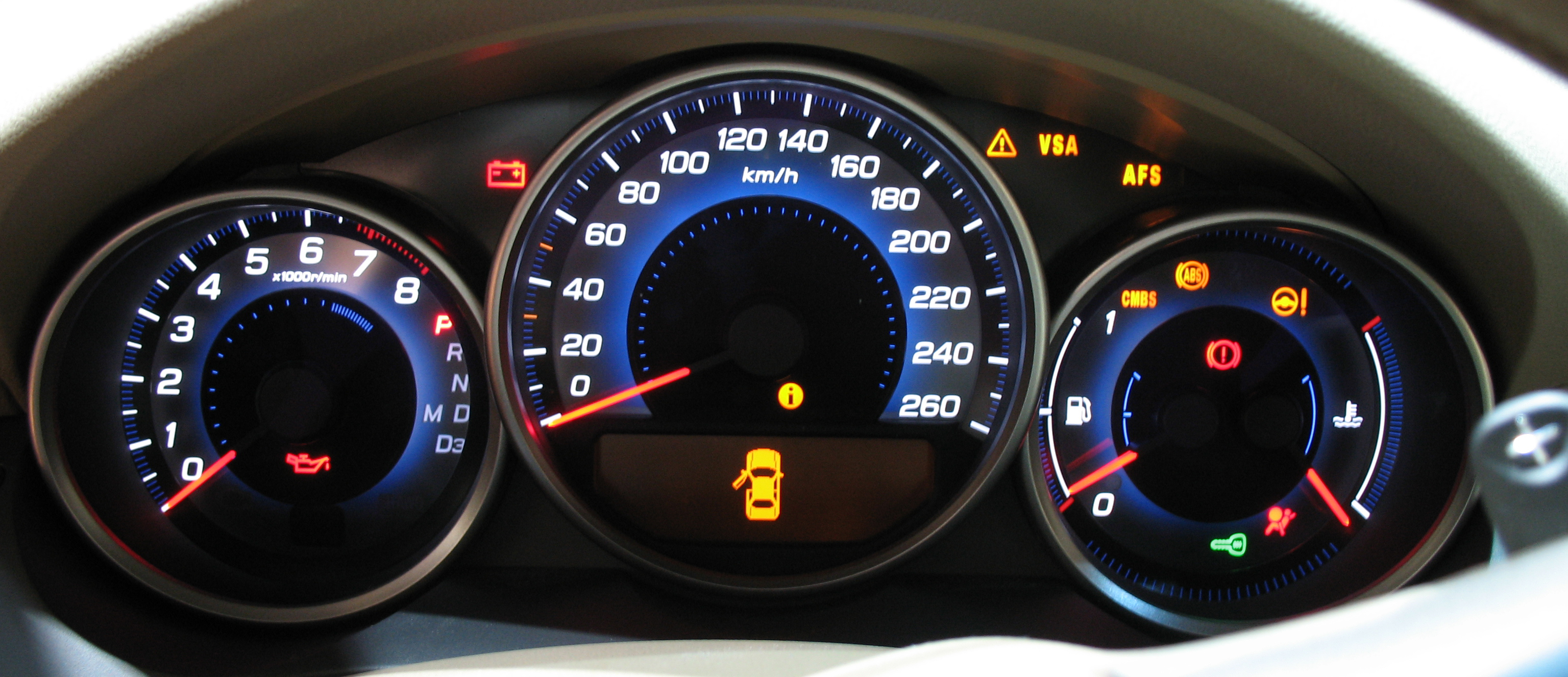 Picture of an automotive instrument cluster